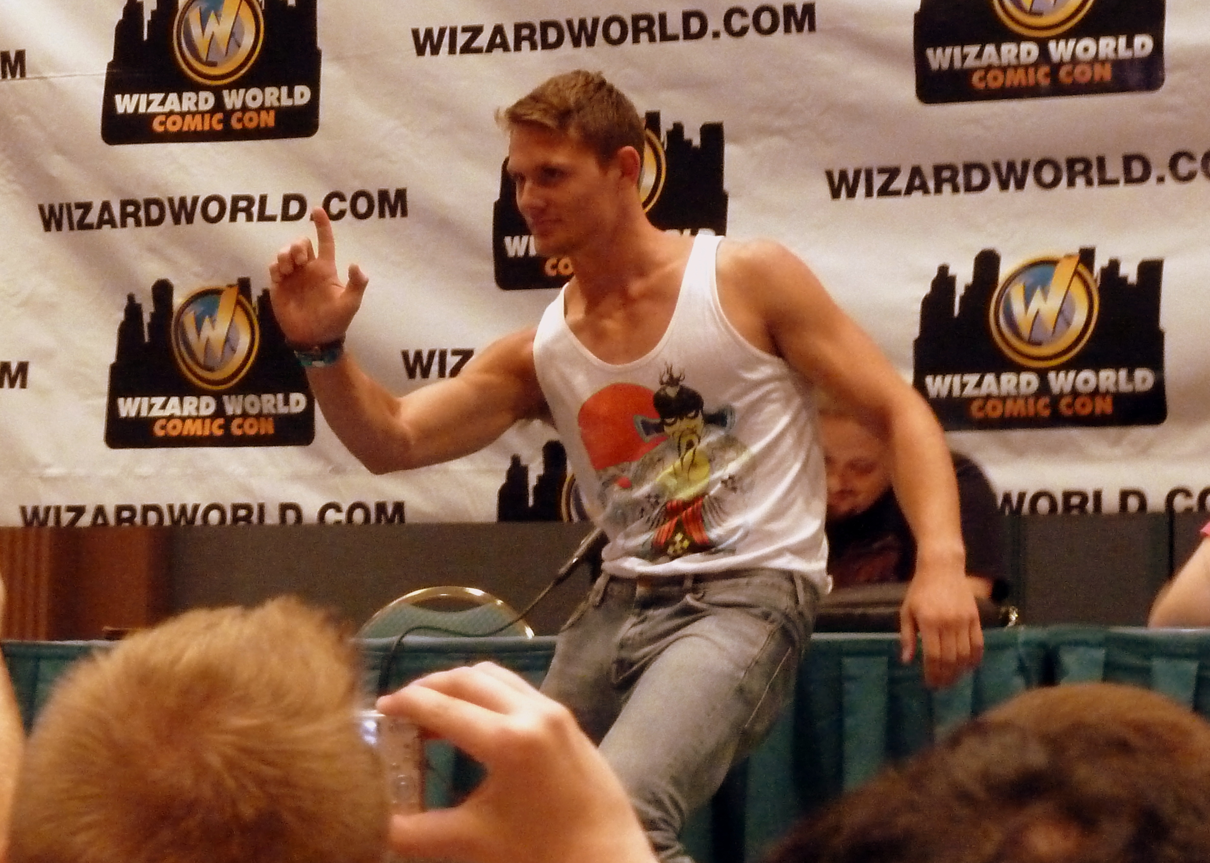 Jack Burton from Big Trouble in Little China Cosplay at Wizard World Chicago 2011.